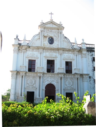 CSt. Paul's Church, Diu